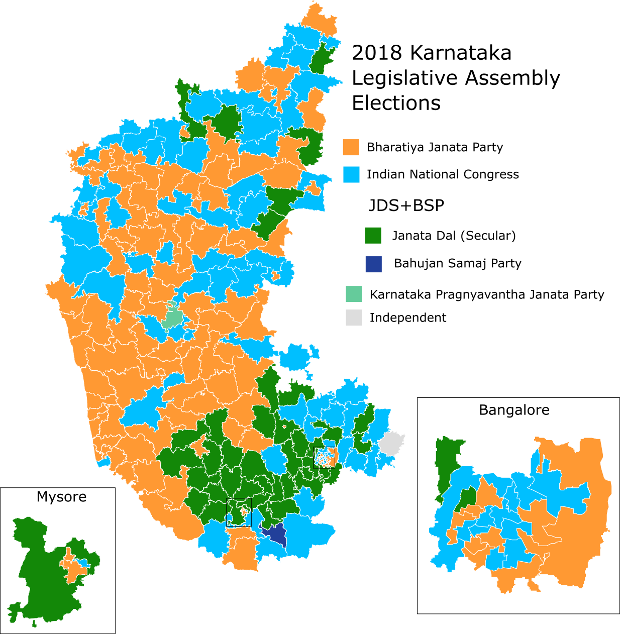 A map showing the results of the Karnataka Legislative Assembly election, 2018.